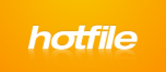 Logo of file hoster Hotfile.